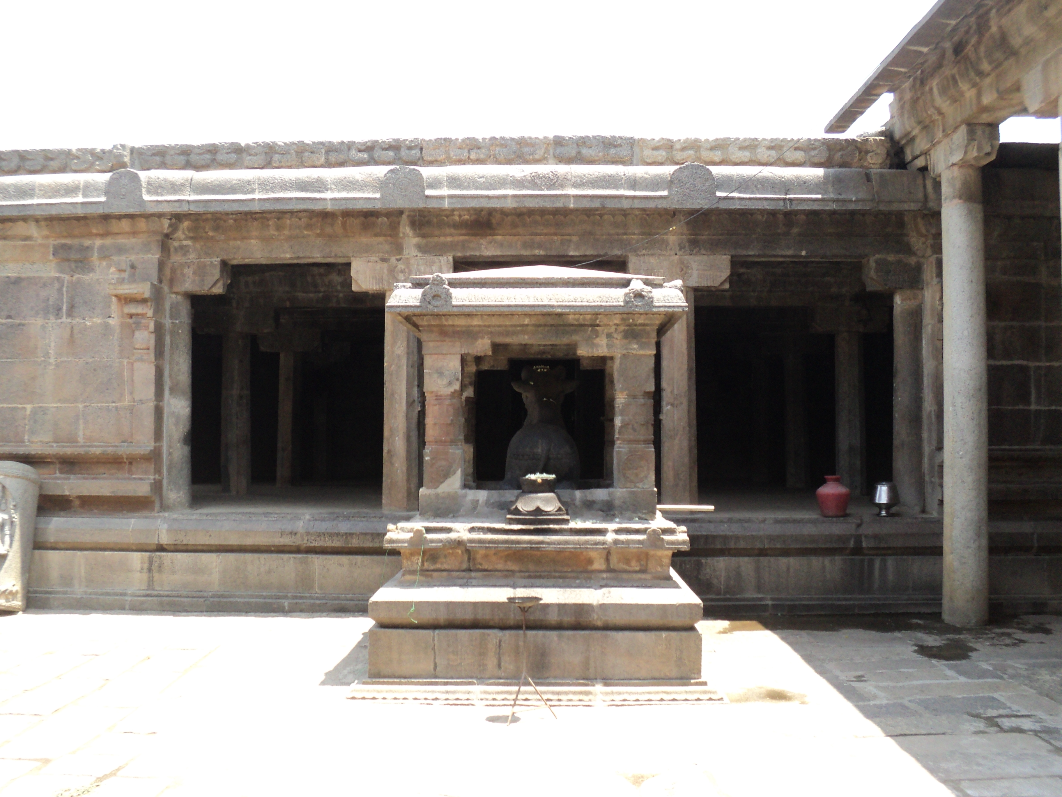 kadavarayas temple inside